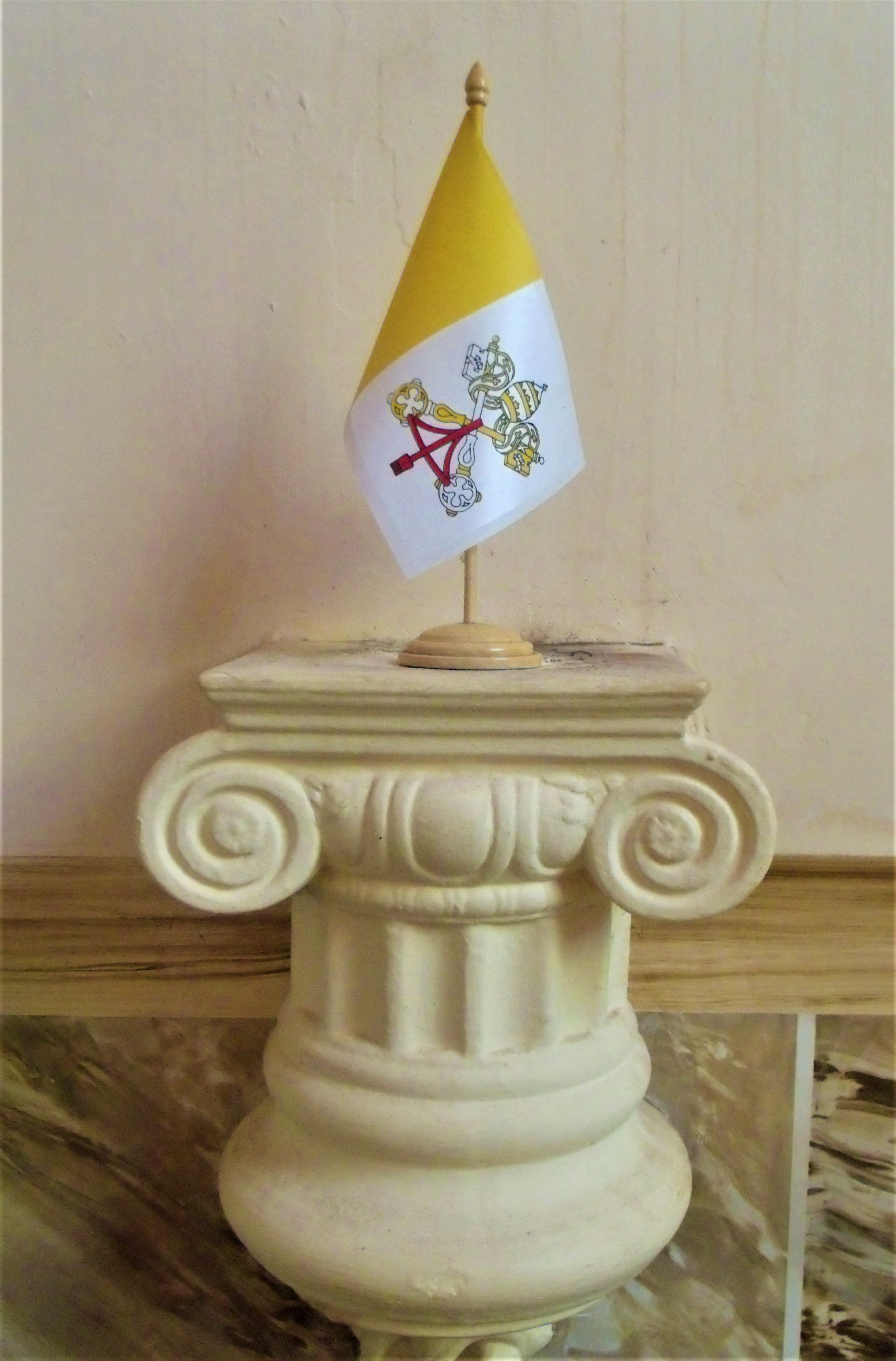 Table flag (Vatican City)